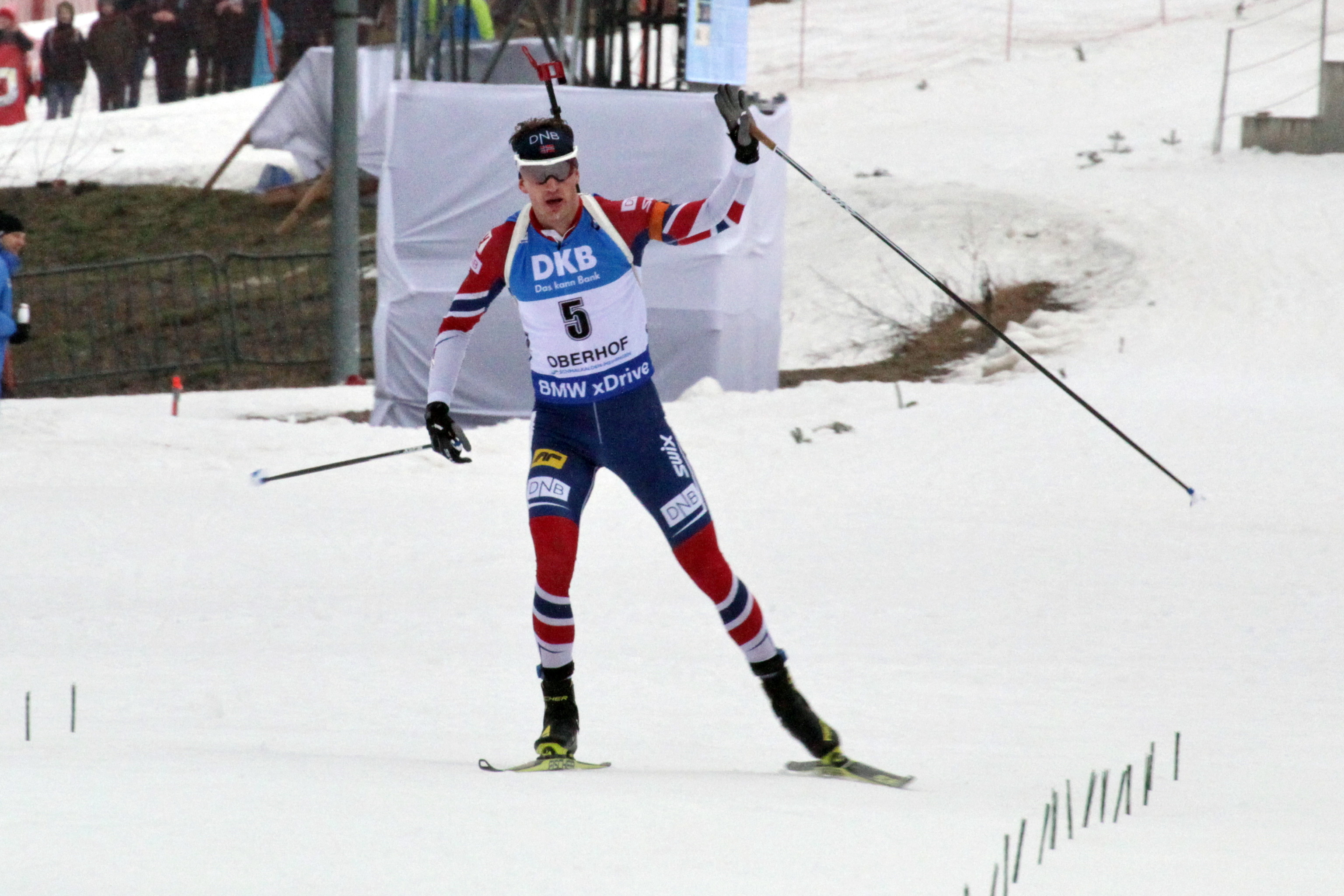 2018 Oberhof Biathlon World Cup - Pursuit Men